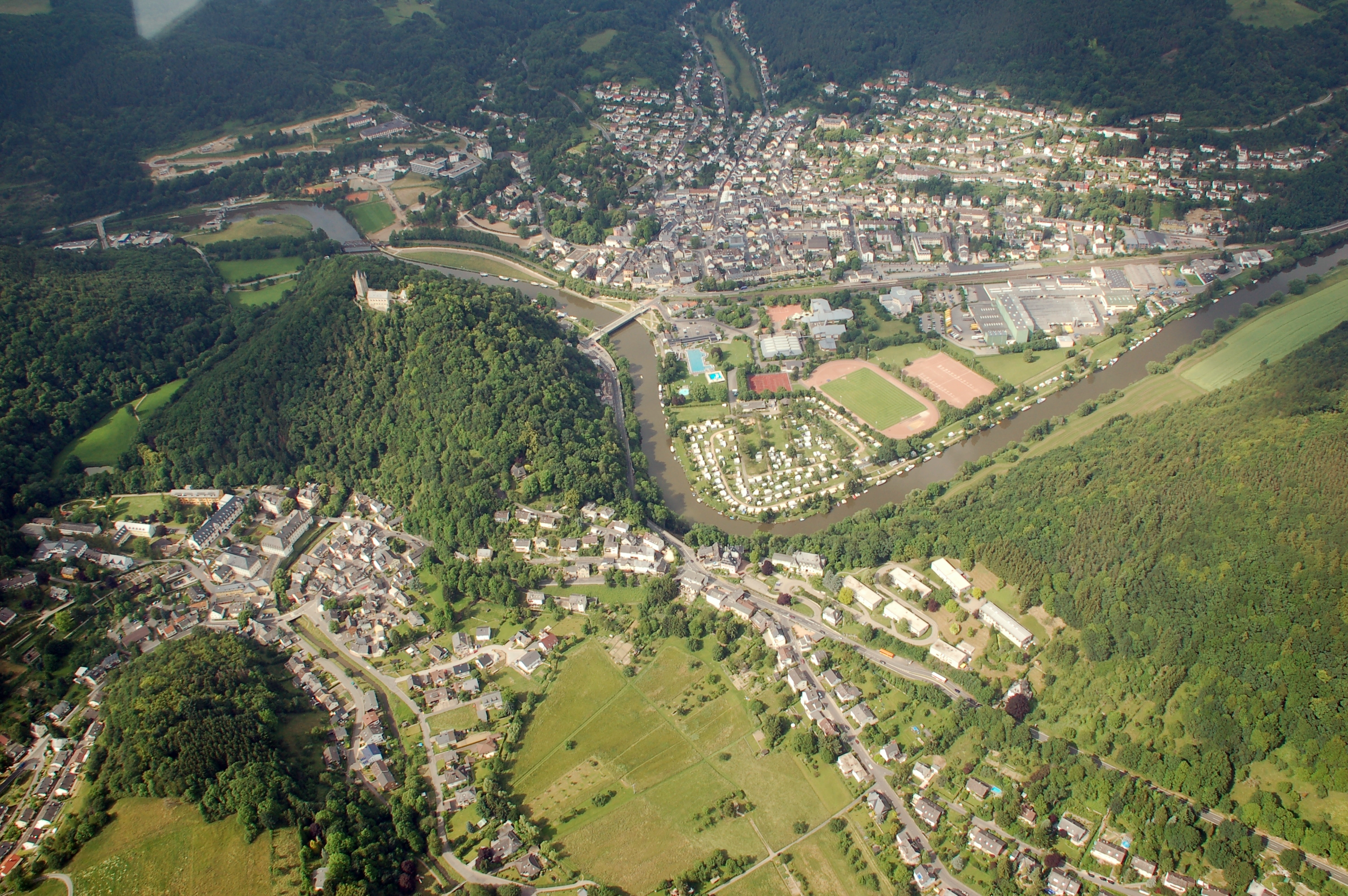 Aerial photograph of Nassau, Rhineland-Palatinate, Germany